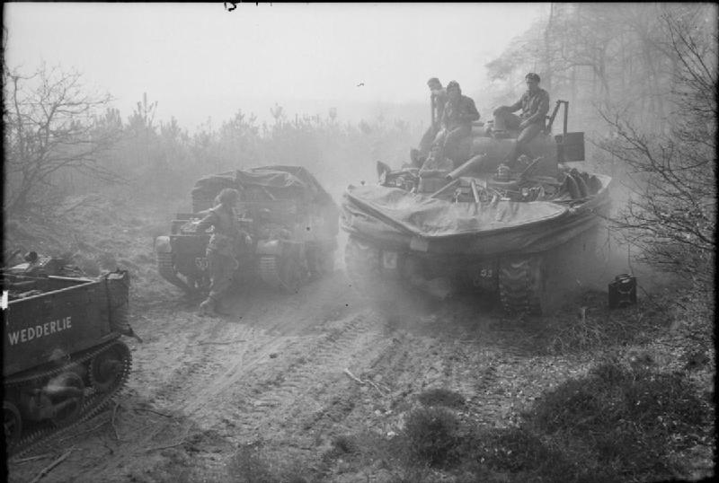 The British Army in North-west Europe 1944-45 Sherman DD tank of 44th Royal Tank Regiment, 4th Armoured Brigade, passing carriers of the 6th King's Own Scottish Borderers east of the Rhine, 25 March 1945.